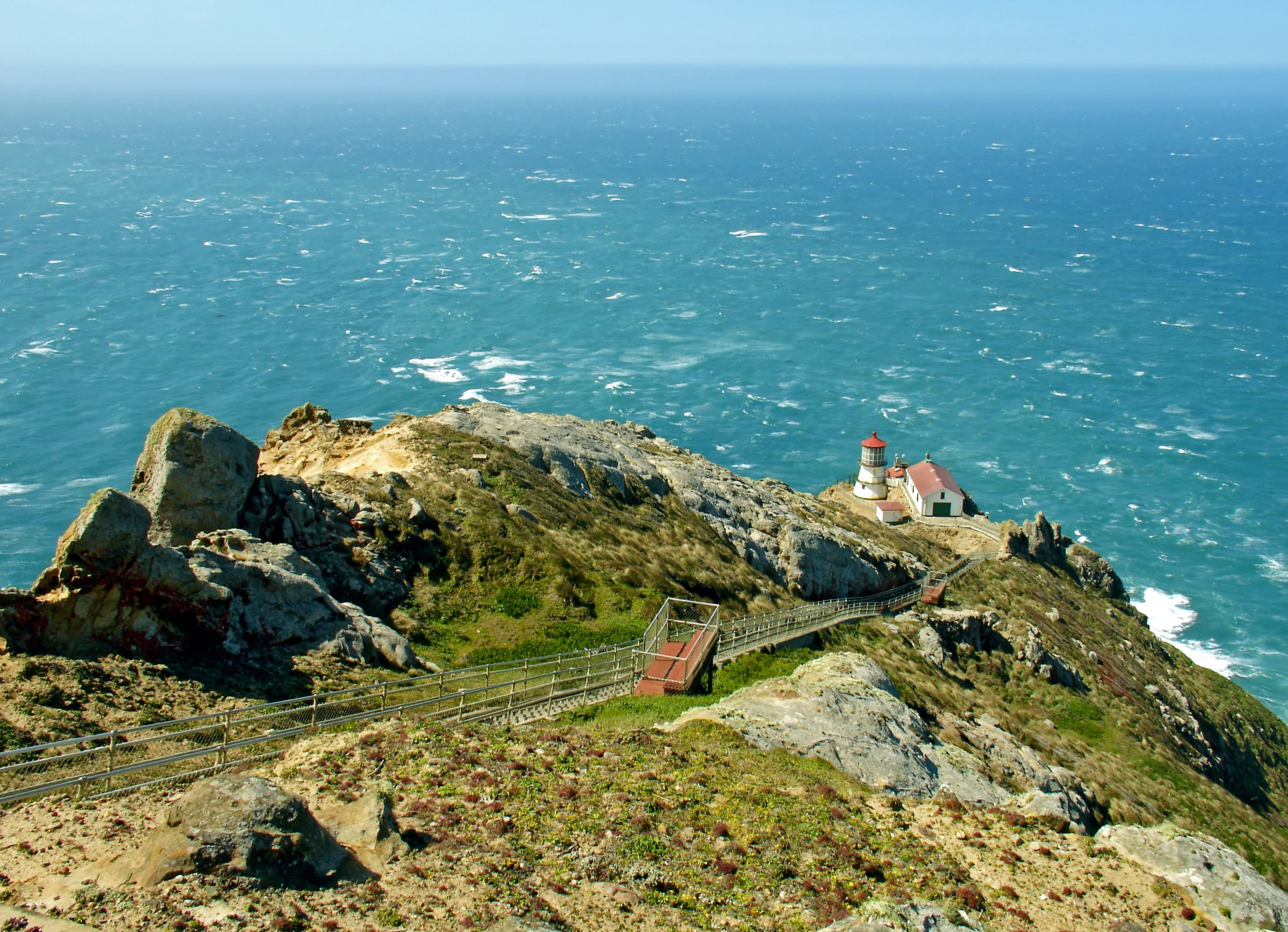 Lighthouse at Point Reyes, Point Reyes National Seashore, California.